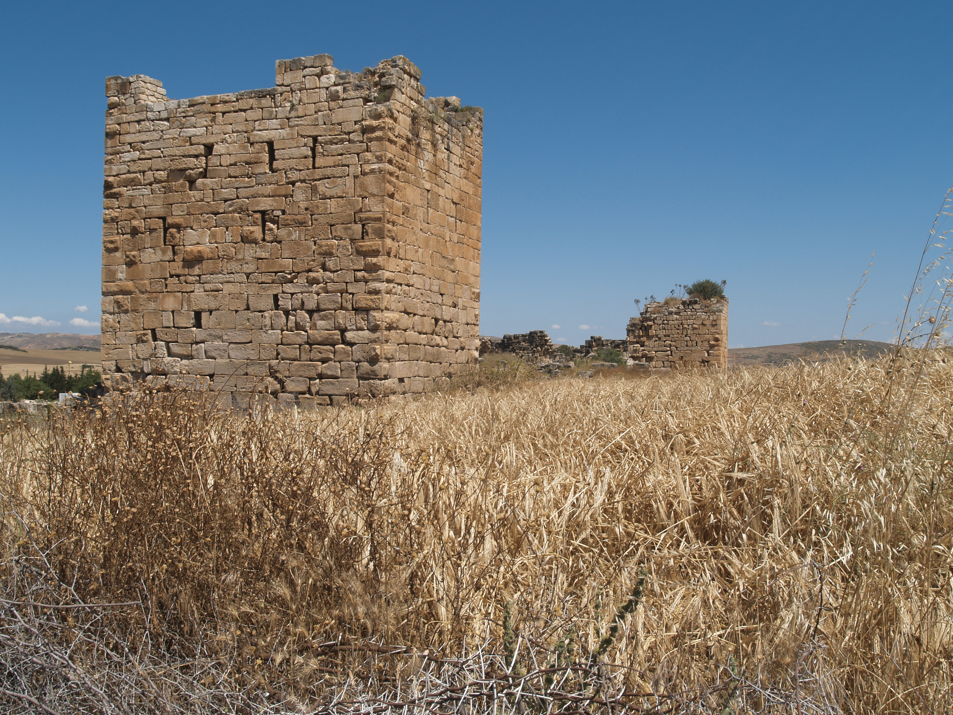 AWIB-ISAW: Fortress Towet at Thignica (Ain Tounga), Tunisia. View of two towers part of a Byzantine fortress. Published by the Institute for the Study of the Ancient World as part of the Ancient World Image Bank (AWIB).